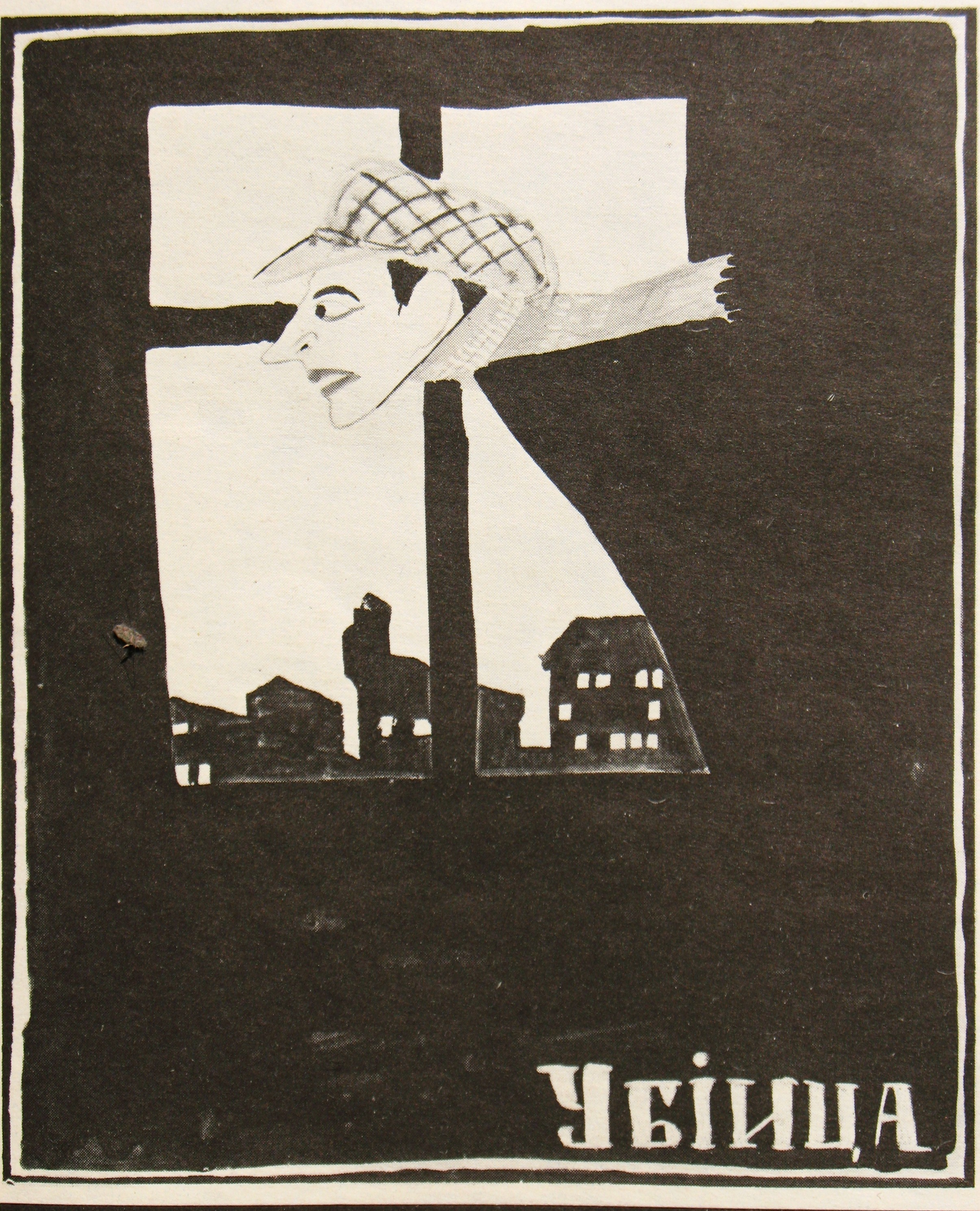 Dmitry Moor. Russian Empire cinema poster.